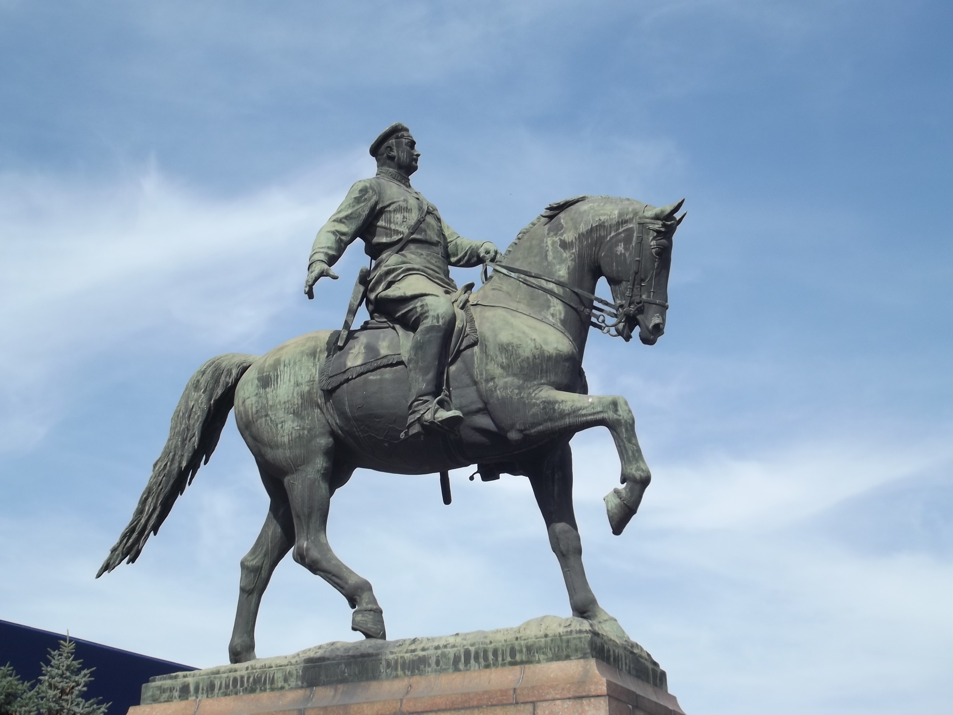 Equestrian statue of Grigory Kotovsky in Chisinau, Moldova